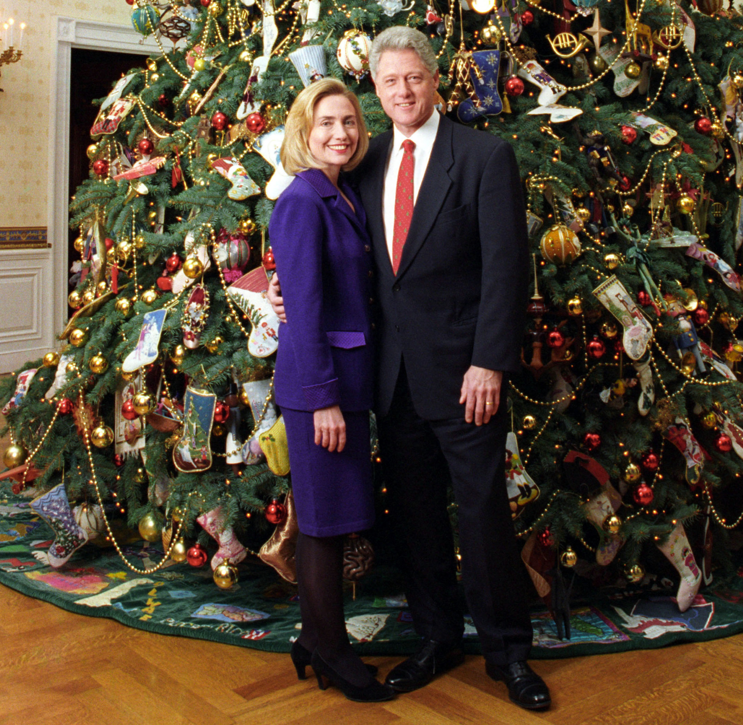 President Clinton and Hillary Rodham Clinton posing next to the 1996 White House Christmas tree for their official Christmas portrait